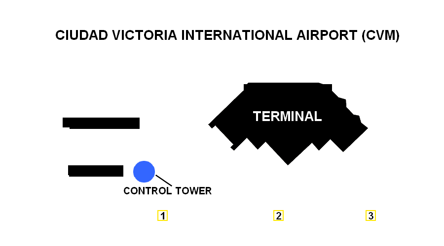 Ciudad Victoria International Airport